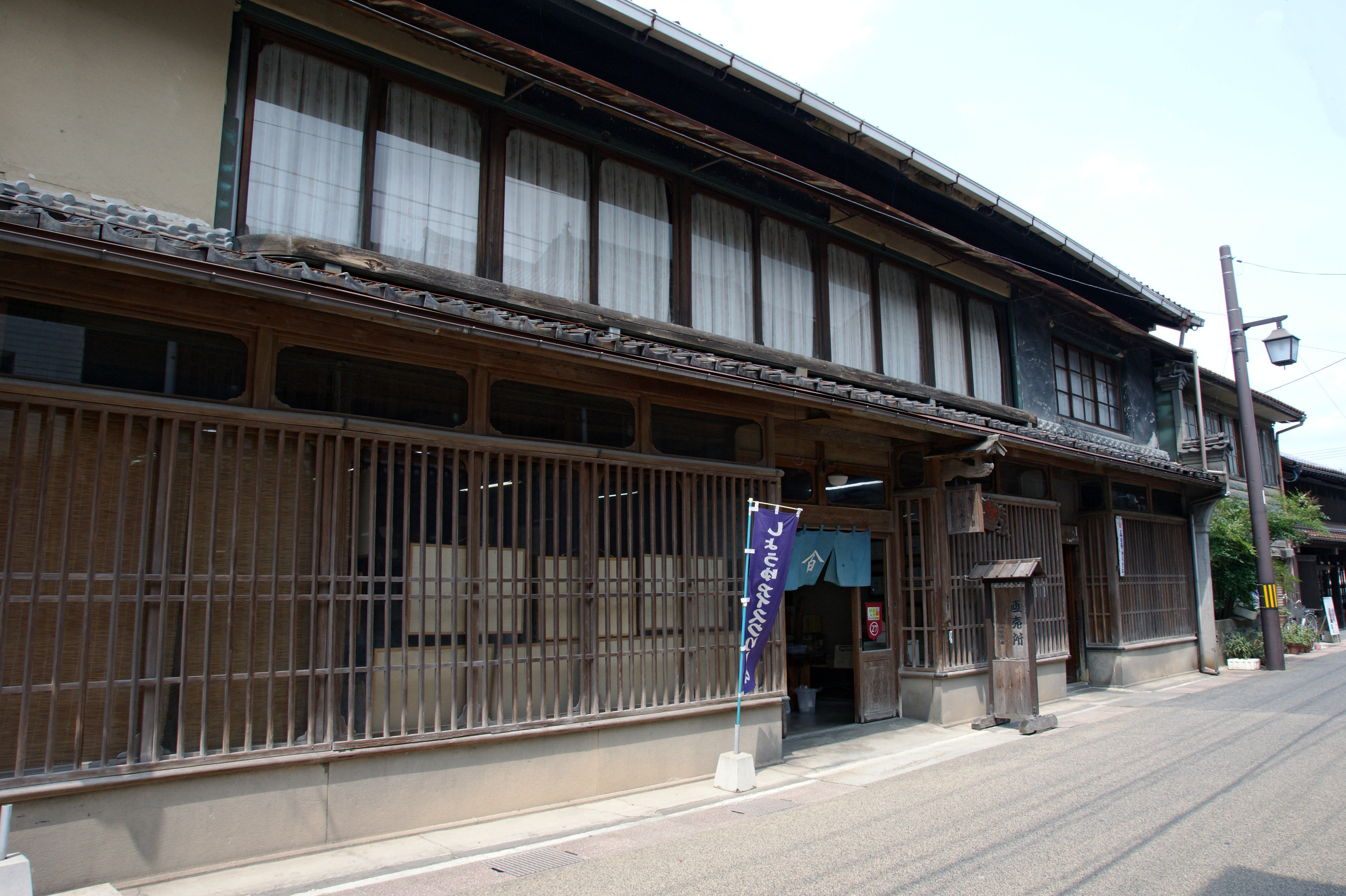 Utsubuki-tamagawa in Kurayoshi, Tottori prefecture, Japan